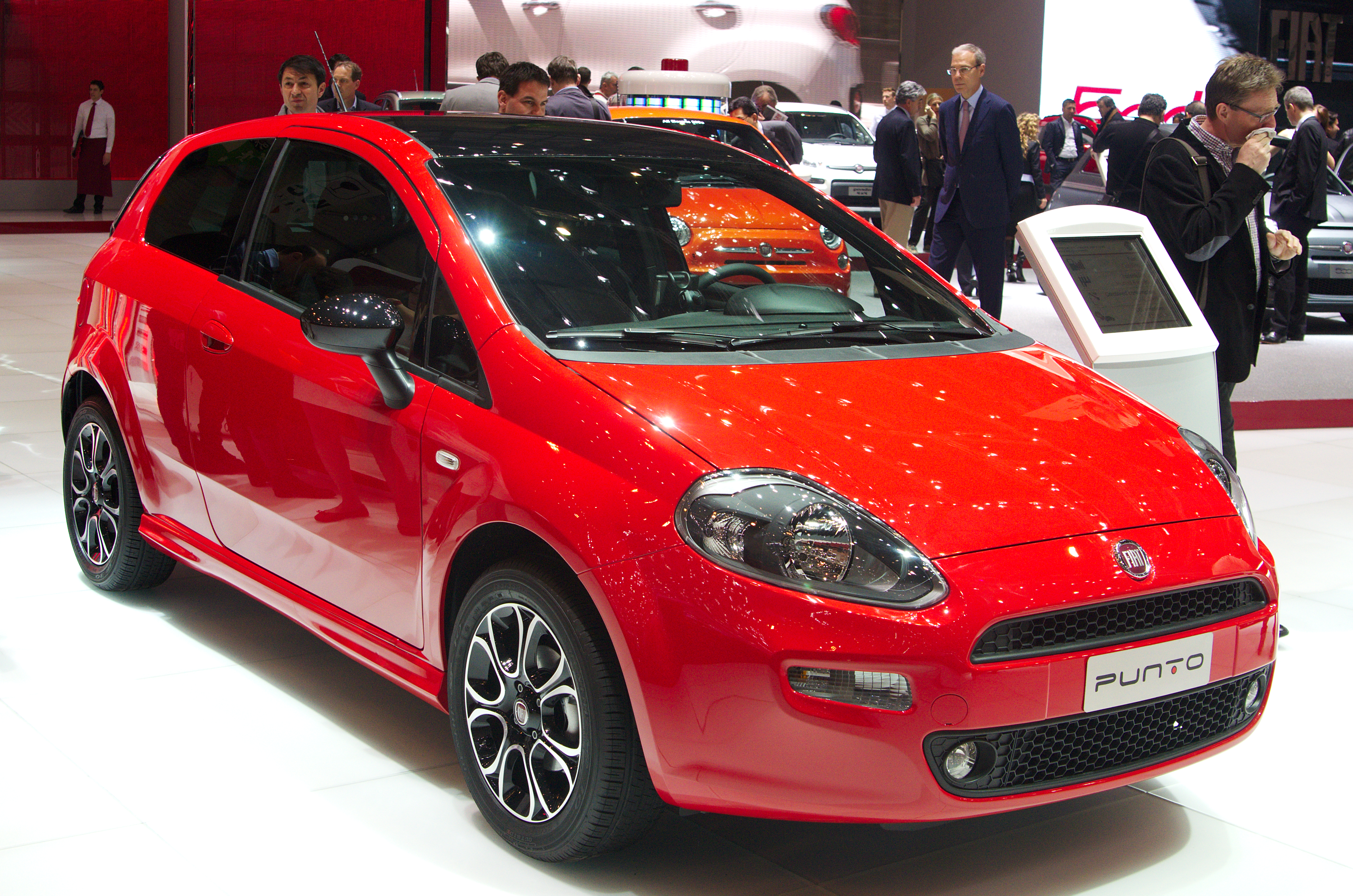 Geneva MotorShow 2013 - Fiat Punto